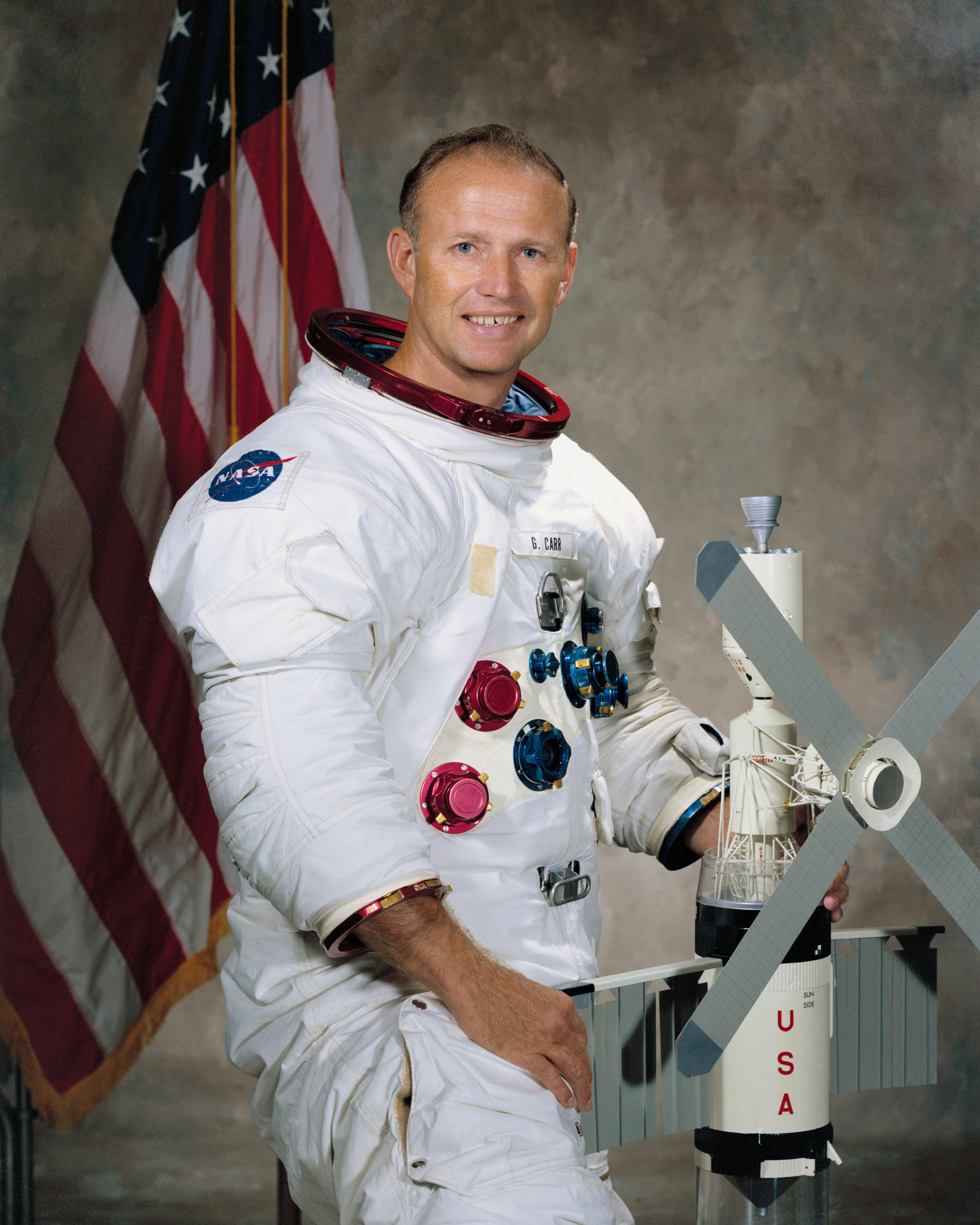 Gerald P. Carr portrait